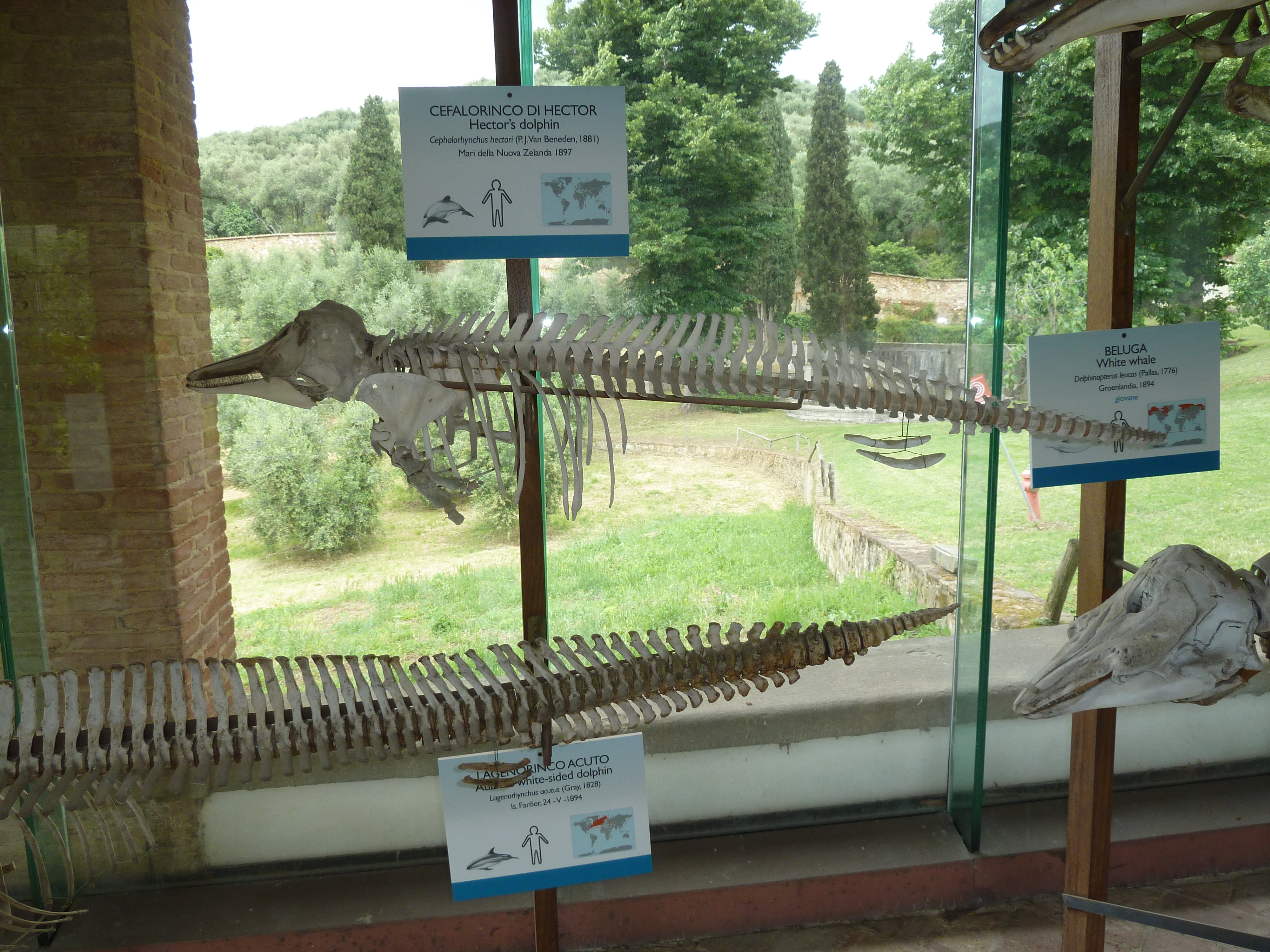 Cephalorhynchus Hectori Calci